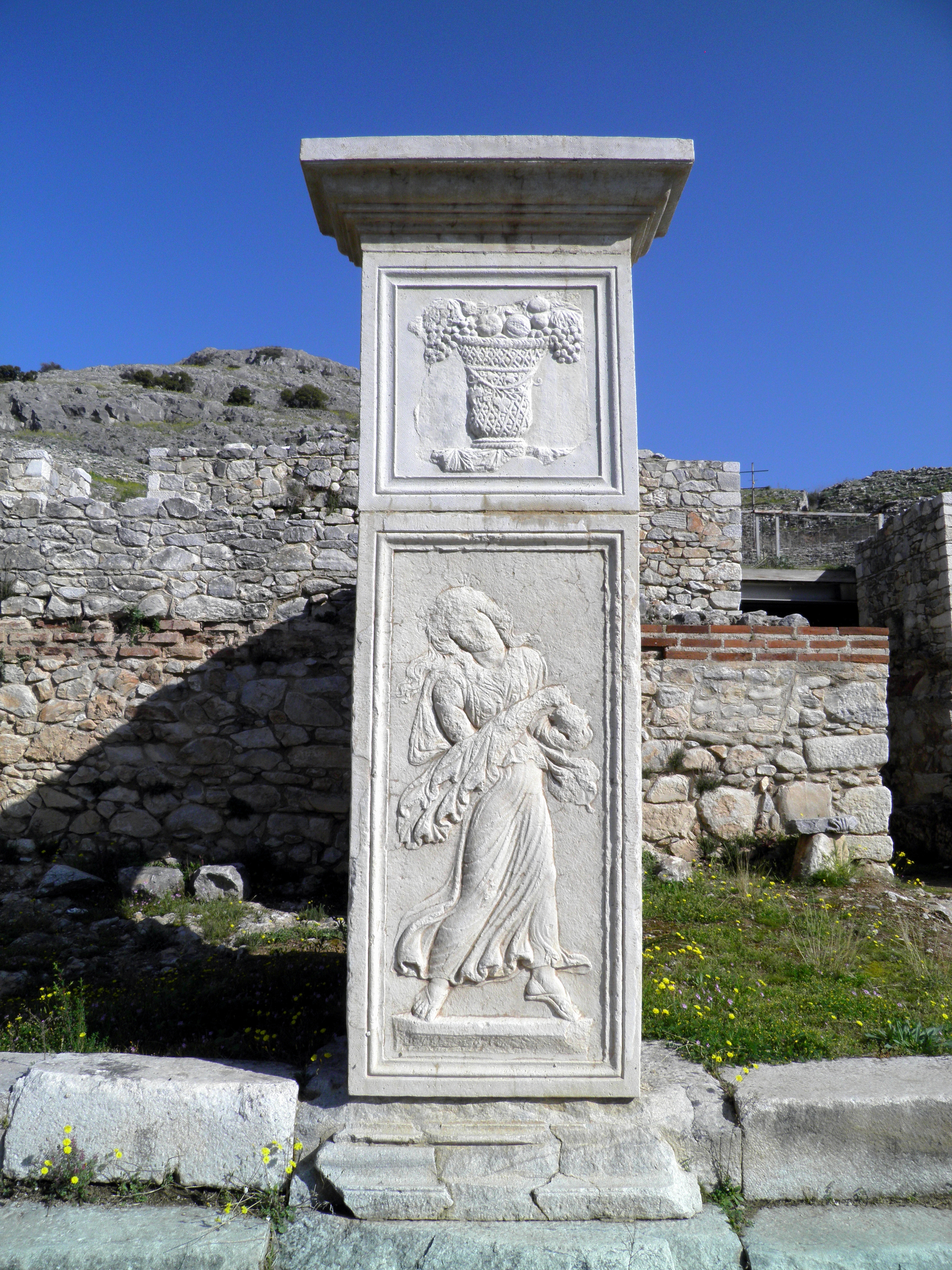 Relief decorations, Ancient Theatre, built by Philip II in the 4th century BC and later reconstructed by the Romans, Philippi